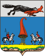 Kyakhta (Troitskosavsk, Buryatia), coat of arms (1846)